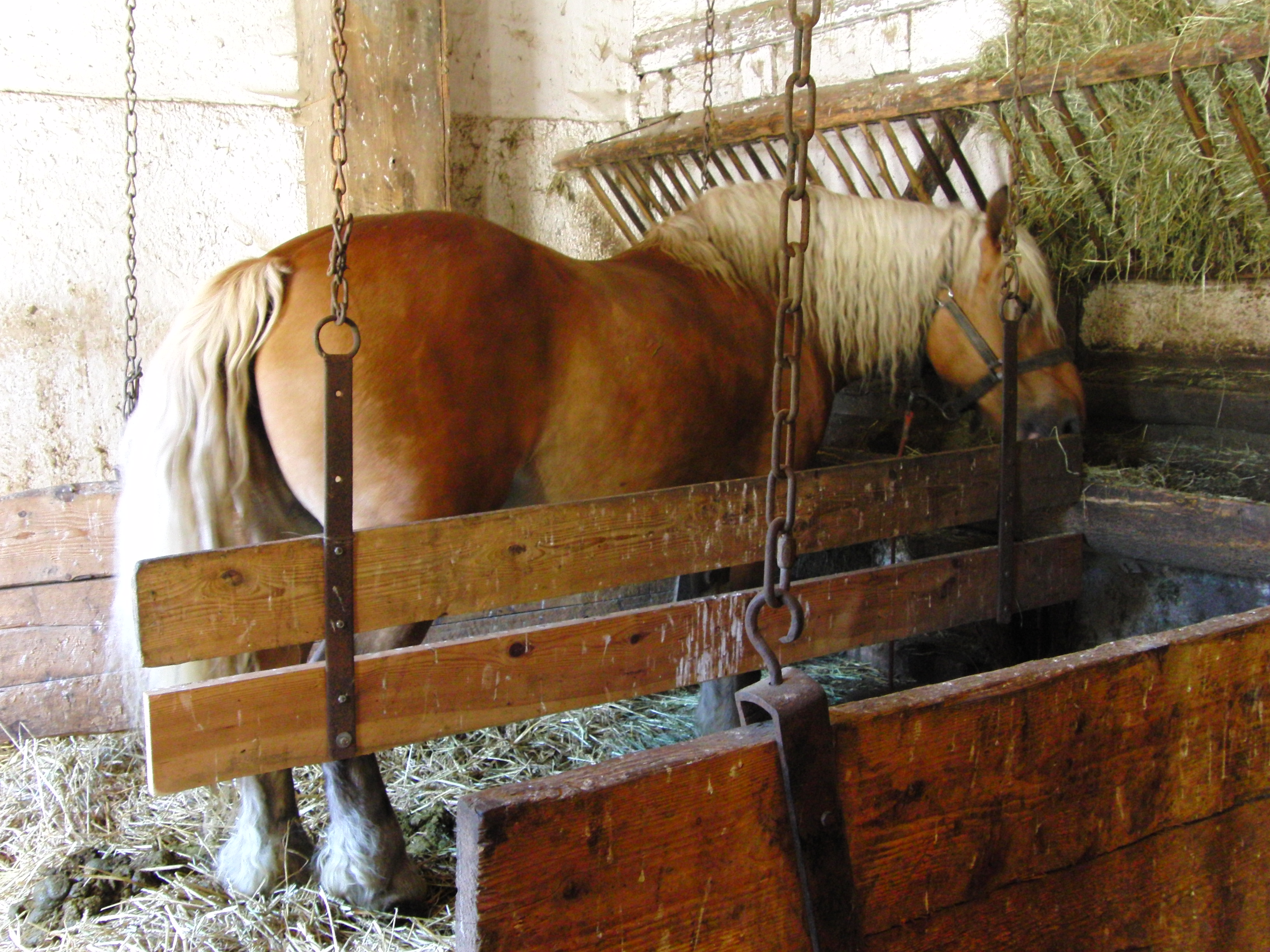 Comtois horse in stables, Ecomusée d'Alsace, France